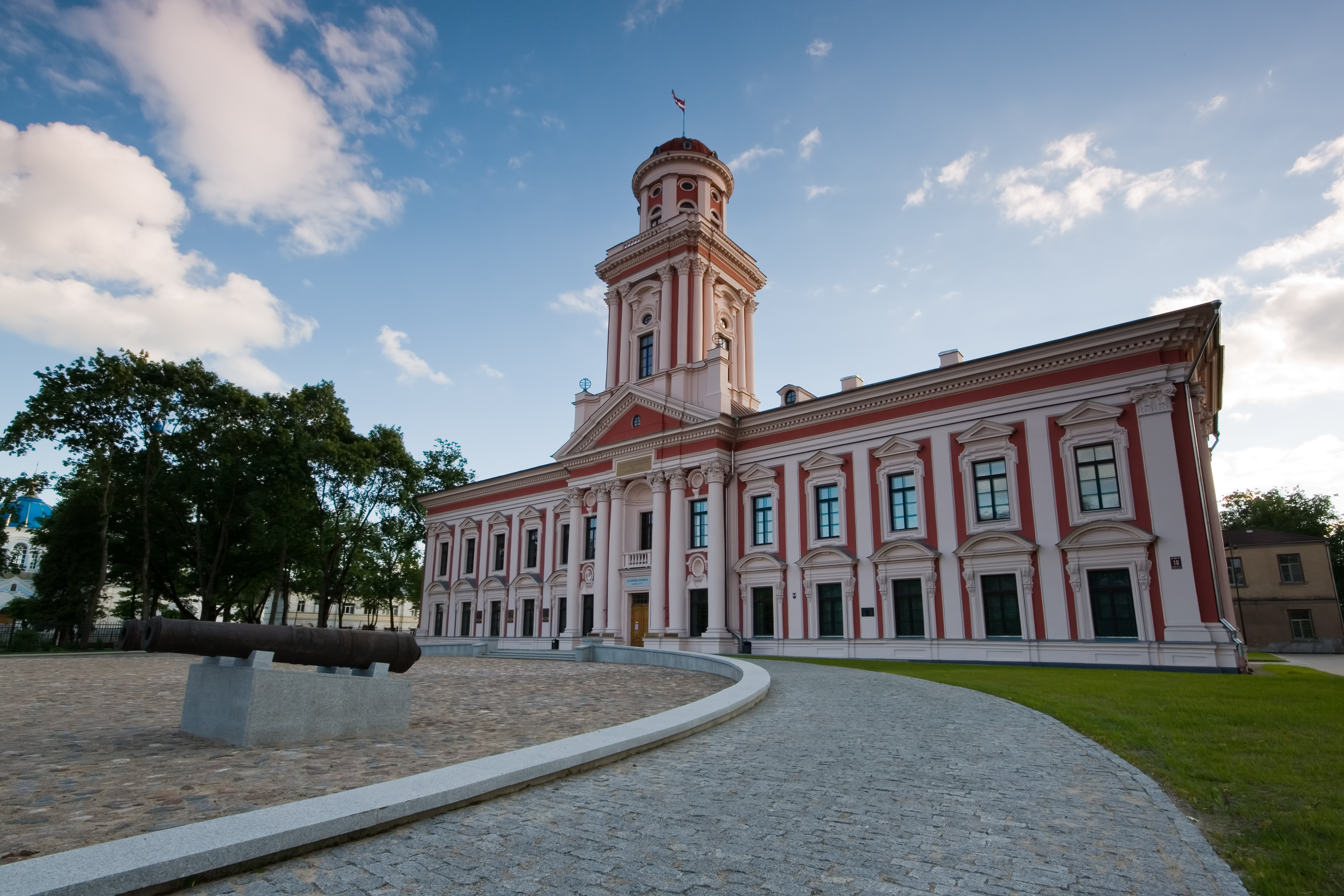 Academia Petrina building. Jelgava, Latvia